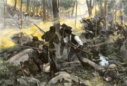 Oil Painting, The Battle of Kings Mountain depicting colonial riflemen advancing on the British position.